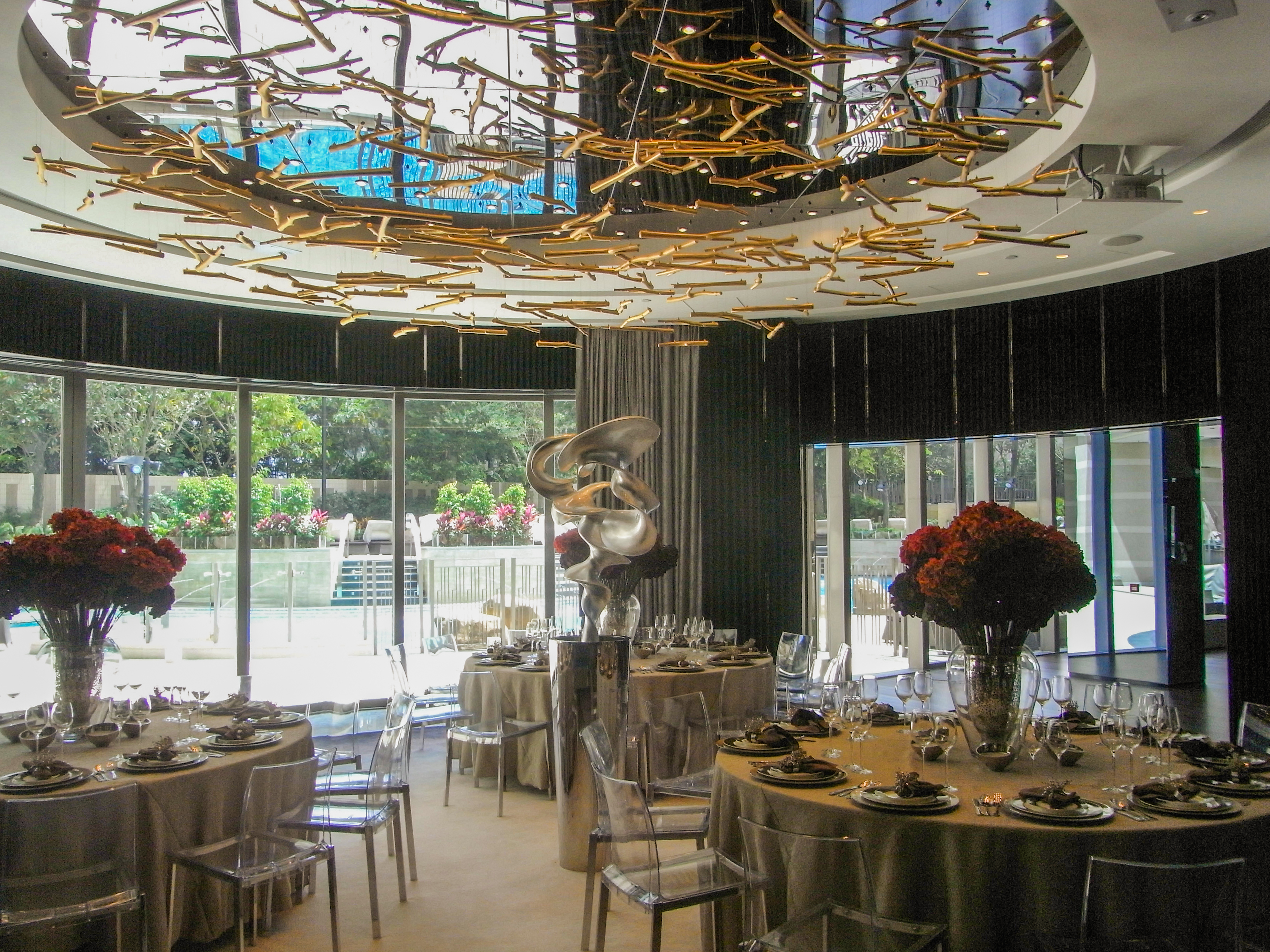 香港新界沙田大圍顯泰街18號名家匯多功能zh:宴會廳